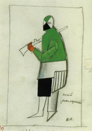 Costume for Victory over the Sun opera. "Some evil man", Некий злонамеренный